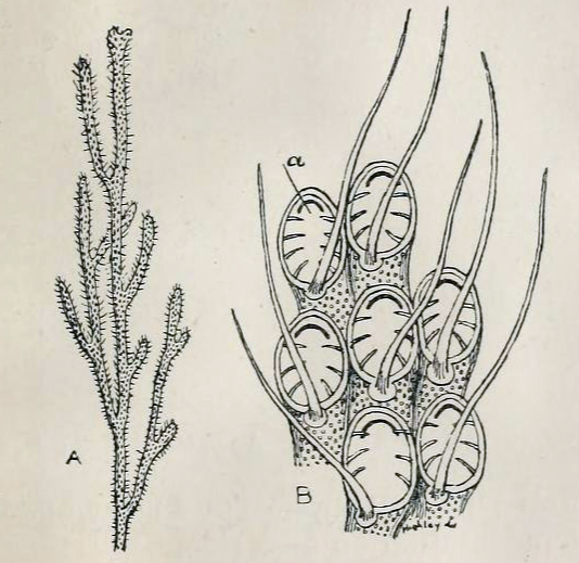 Electra pilosa (Linnaeus, 1767); Electridae; A. Incrusting a seaweed, natural size B. ceels, magnified a) lid or operculum